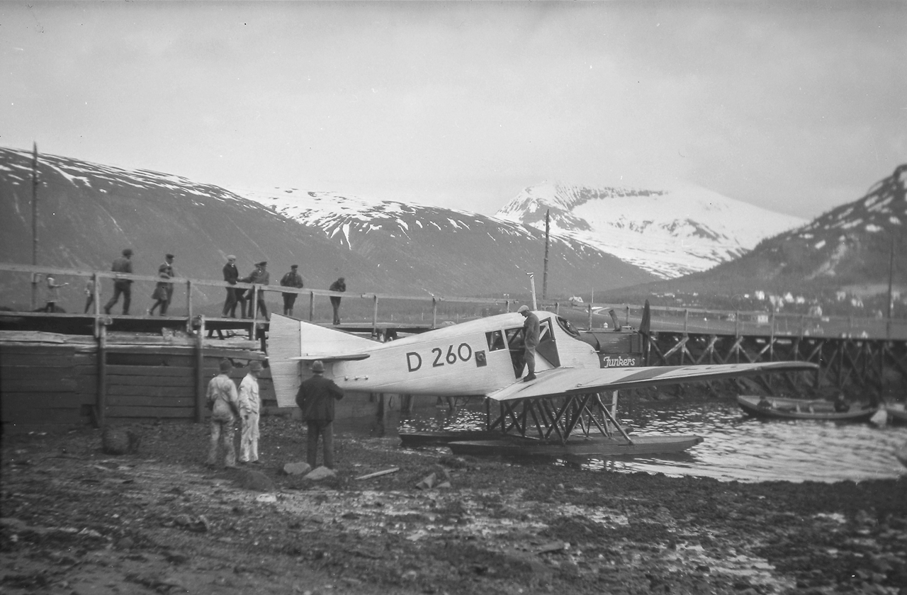 Junkers D 260 in Tromsø near the shipyard.